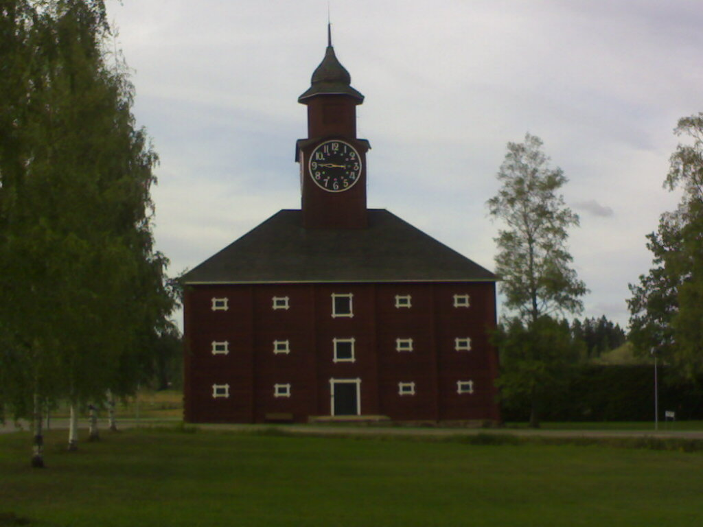 This pictures is take by myself 31.08.2006.